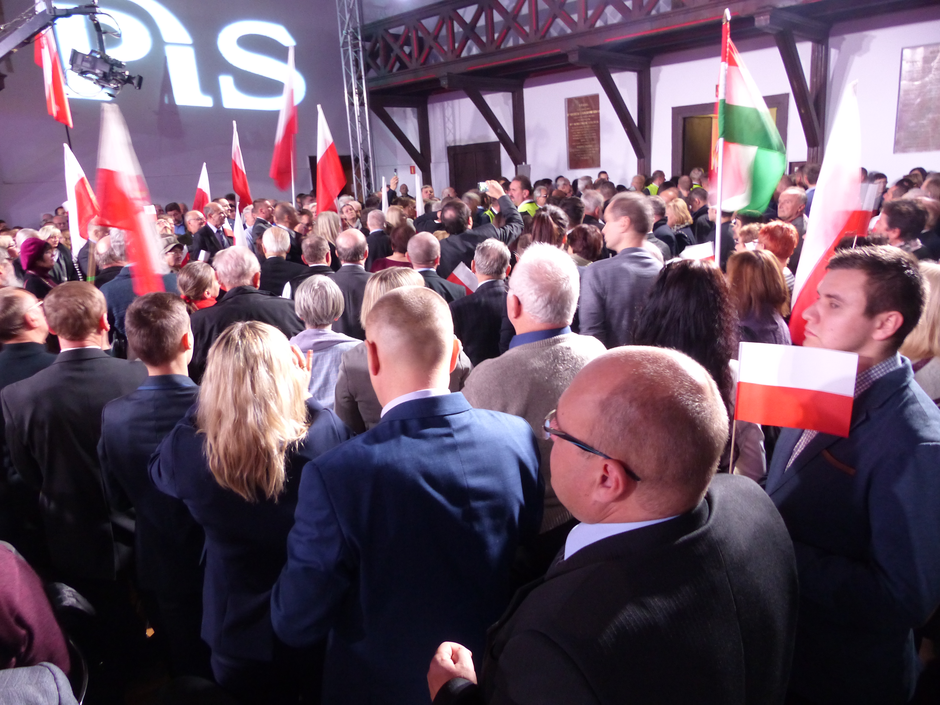 National Independence Day. Taken on the 11th of November, 2016. Krakow, Central Europe. Poland celebrated on this day its independence. In 1918, after 123 years of partition by the Russian Empire, the Kingdom of Prussia and the Habsburg Empire Poland's sovereignty was restored. PTG Sokół Józefa Piłsudskiego 27 33-332, Poland, Central Europe.